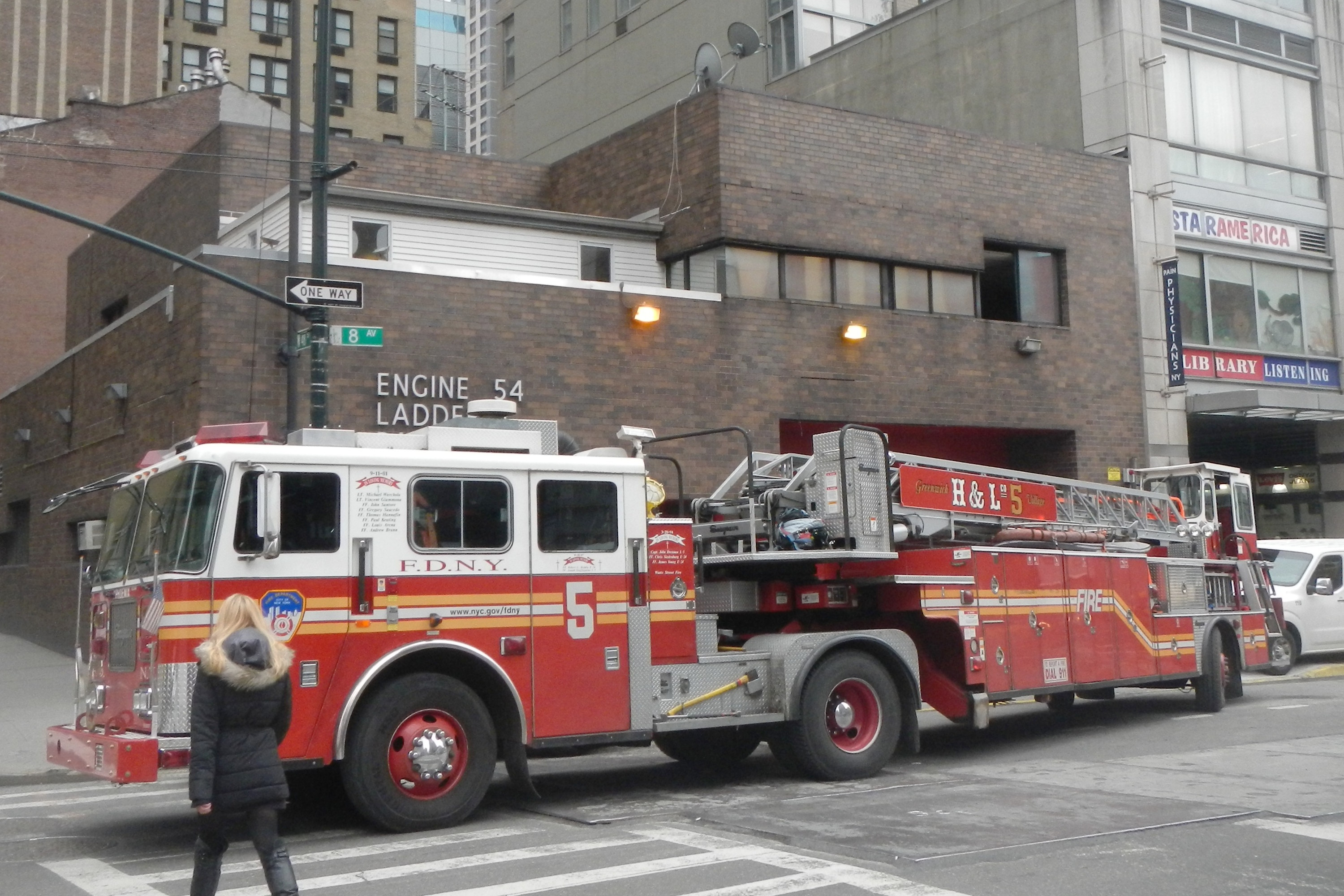 Looking southeast at FDNY Ladder 5. However, once the ladder moves out of the way we will see that this firehouse is the home for Ladder 4. The usual home for Ladder 5 is down in Greenwich Village along with Engine 24 and Battalion 2.